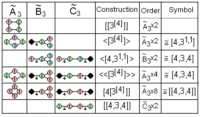 Coxeter-Dynkin diagram table of correspondences and automorphisms